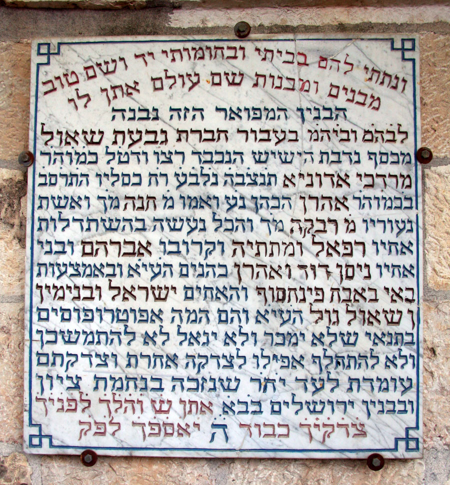 The Haji Adoniyah synagogue of the Crypto-Jews of Mashhad, in the Bukhari neighbourhood in Jerusalem, Adoniyahu HaCohen street, 16. plaque in the courtyard.